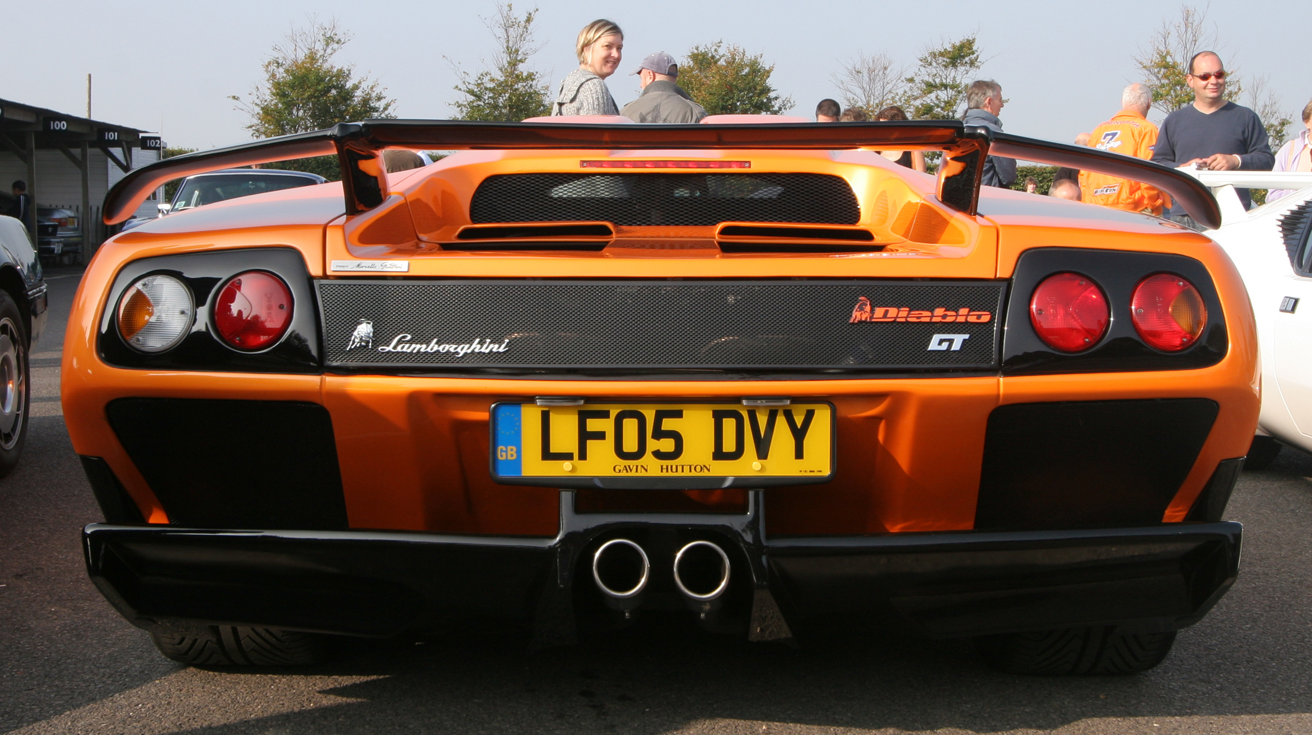 Goodwood Breakfast Club - Lamborghini Diablo GT